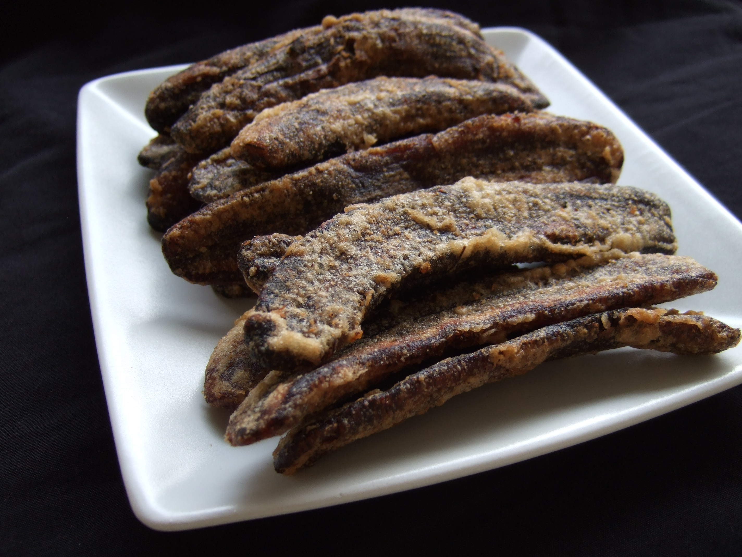 Smoked or dried banana fritters